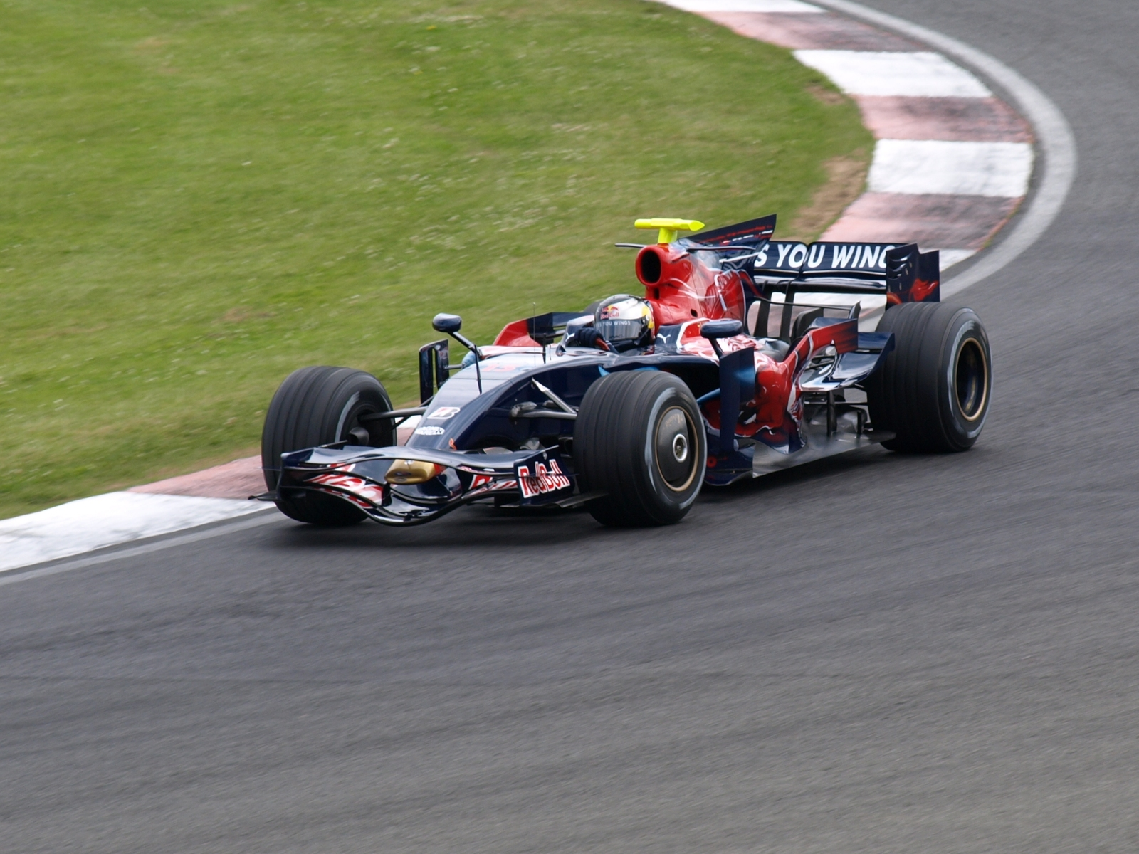 Sebastian Vettel testing for Scuderia Toro Rosso at Silverstone Circuit in June 2008.